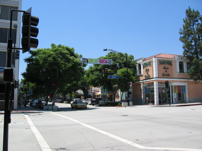 The intersection of San Fernando and Olive in downtown Burbank looking north up San Fernando.